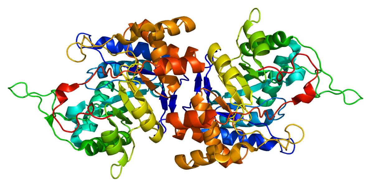 Structure of the AKR1C1 protein. Based on PyMOL rendering of PDB 1ihi.